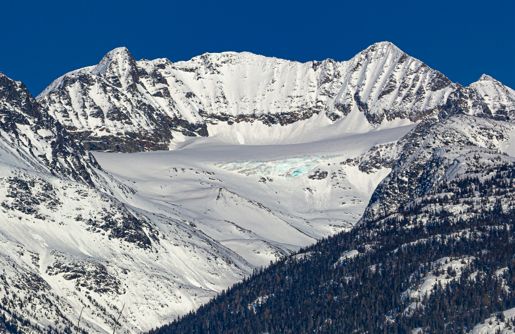 last leg of the journey from Horseshoe Bay to Kamloops on Hwys 99 and finally 97...the peaks around Mt Weart (2835m)...